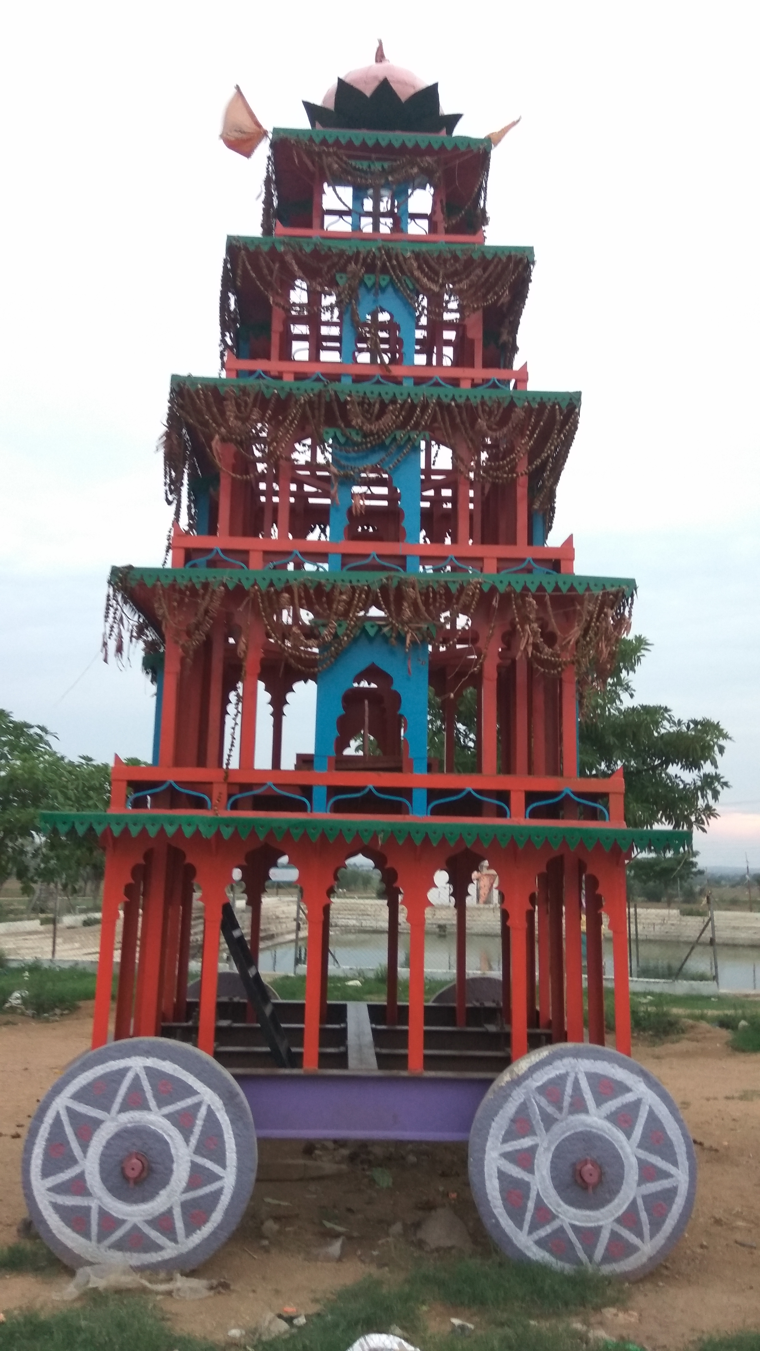 Cart at Rameshwara Temple, Raikal, Farooqnagar, Mahbubnagar District,Telangana State